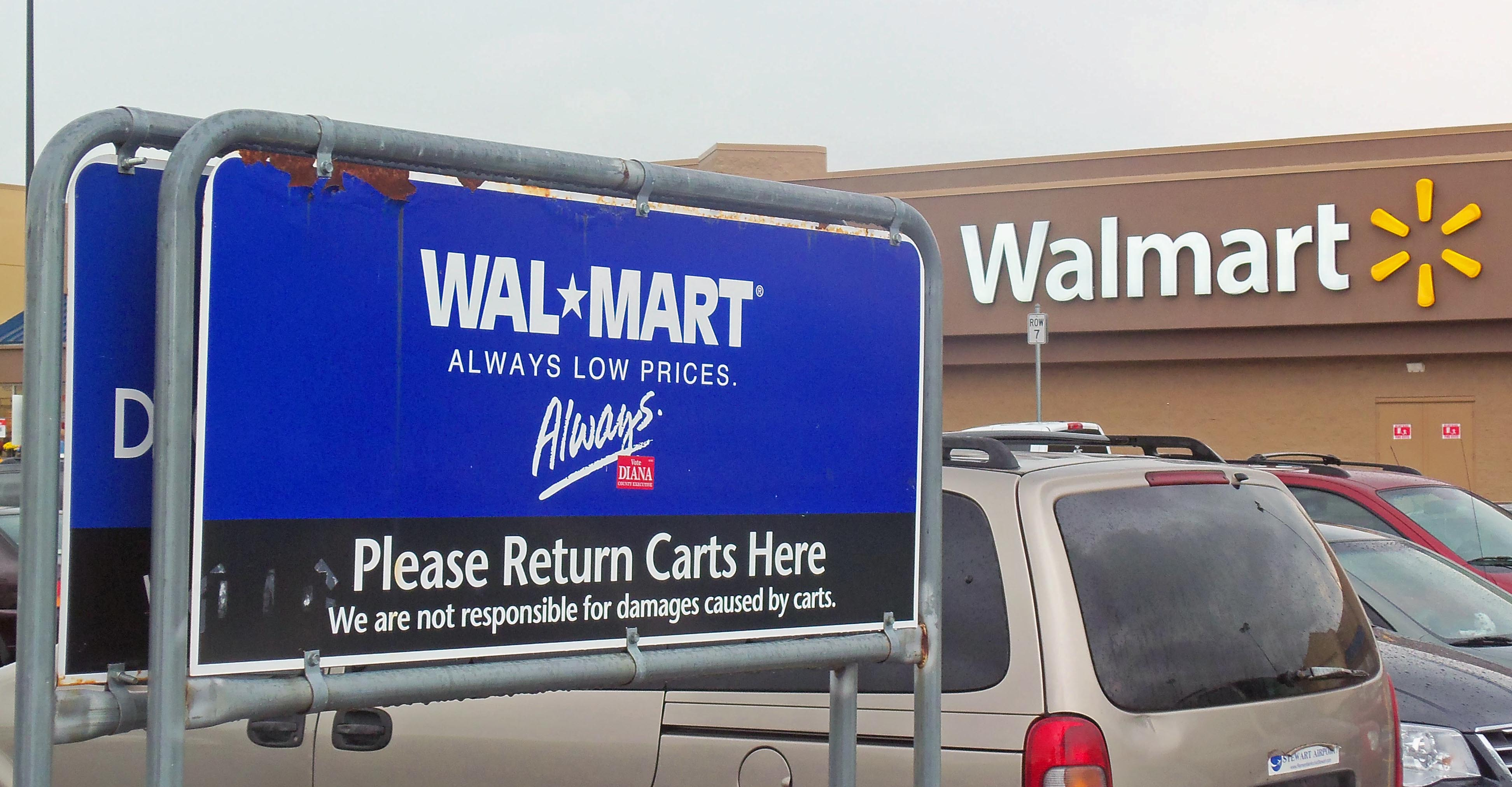 Pre-2008 Walmart logo on cart corral juxtaposed with current logo on facade of store in Town of Newburgh, NY, USA